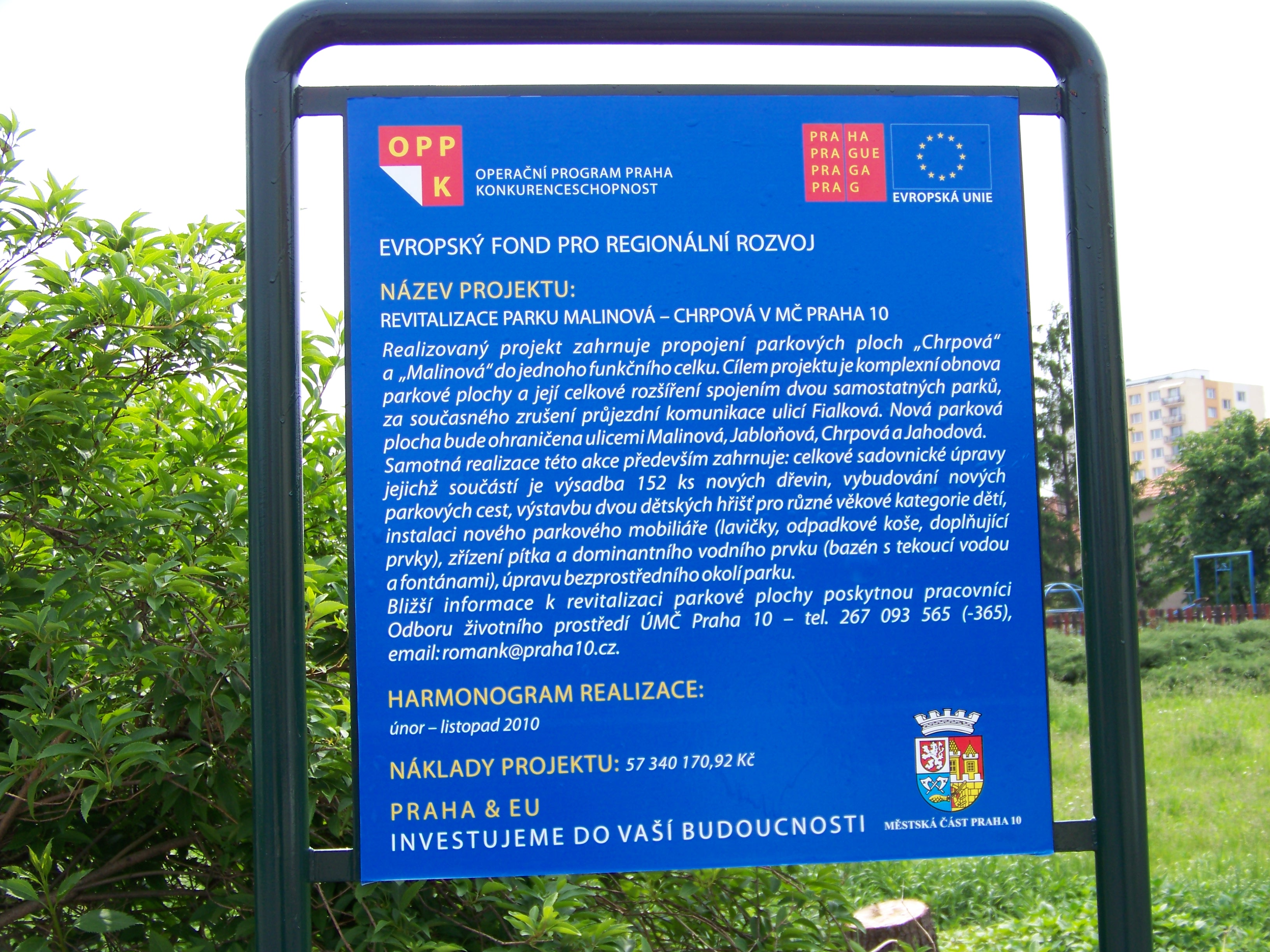 Záběhlice, Prague, the Czech Republic. Zahradní Město, a board about a reconstruction of the park.